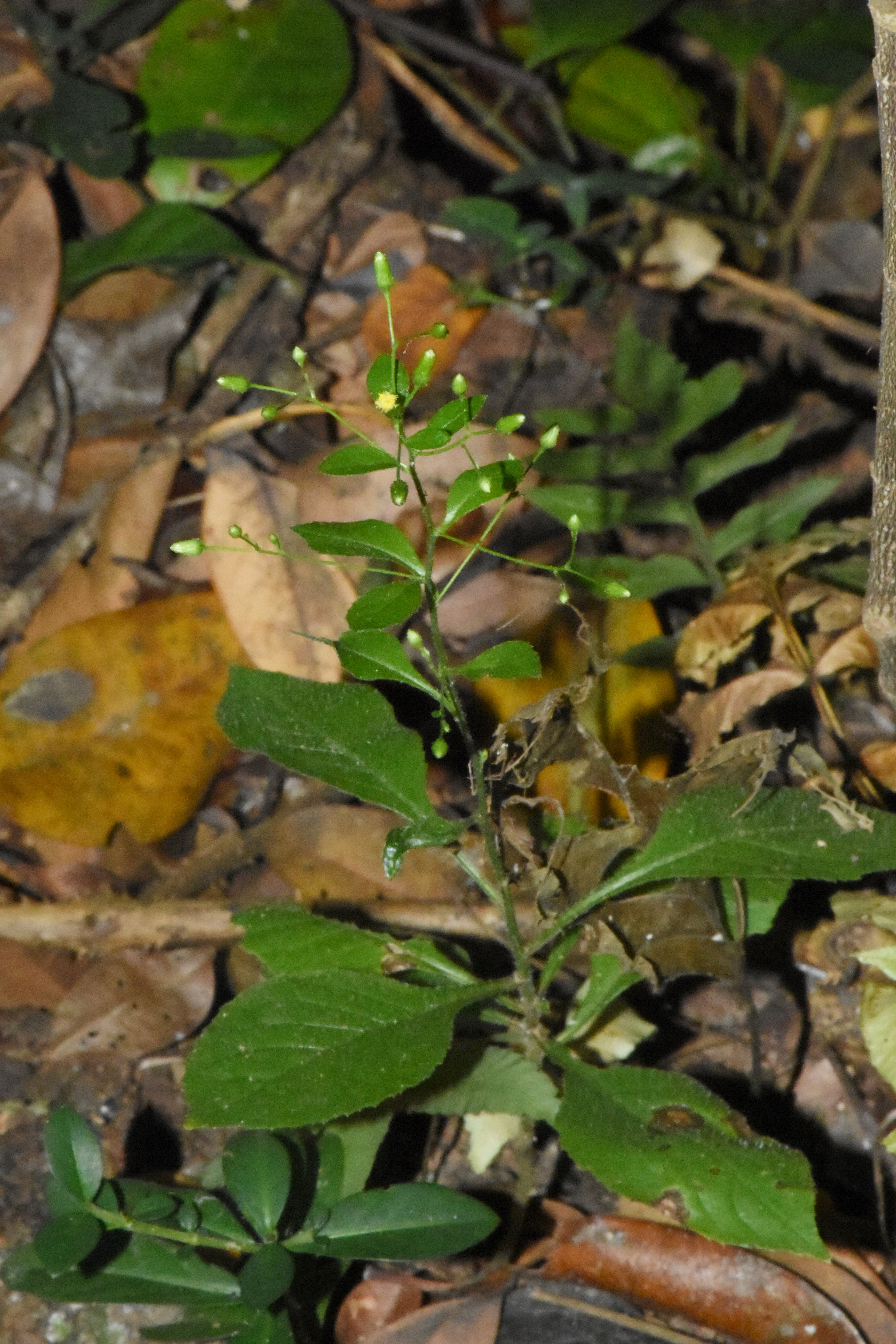 At Neeliyarkottam